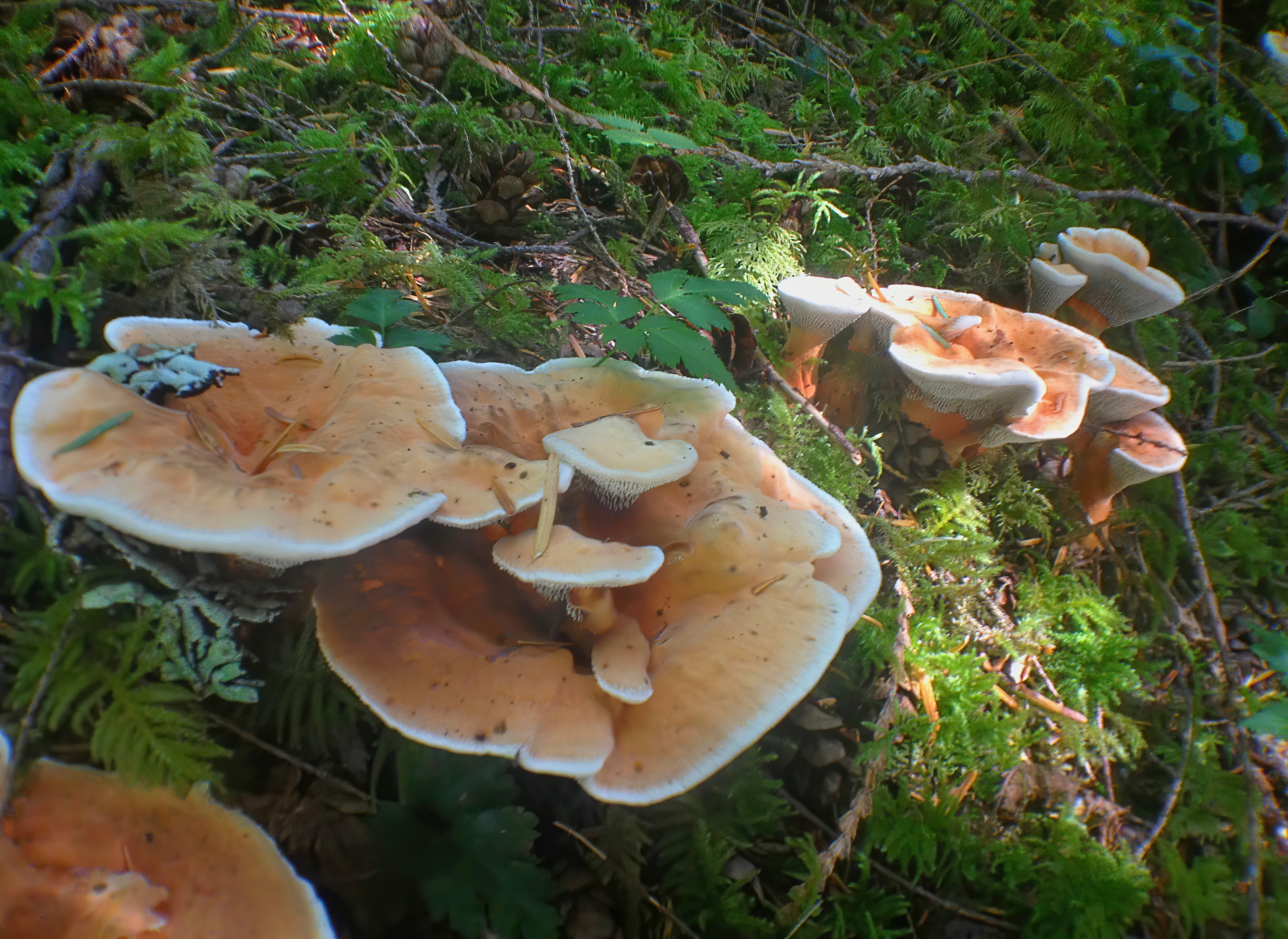 Hydnellum aurantiacum (Batsch) P. Karst. Image location: Wynoochee Lake, Olympic National Forest, Washington, USA For more information about this, see the observation page at Mushroom Observer.